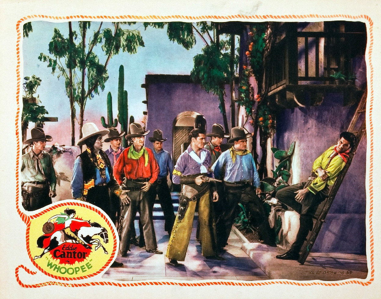 Lobby card for the 1930 film Whoopee!.